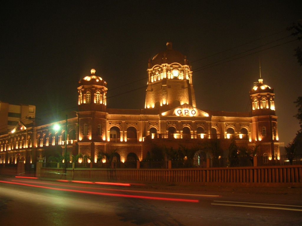 Goverment Post Office — at The Mall, Lahore. British colonial architecture in Pakistan. Courtesy